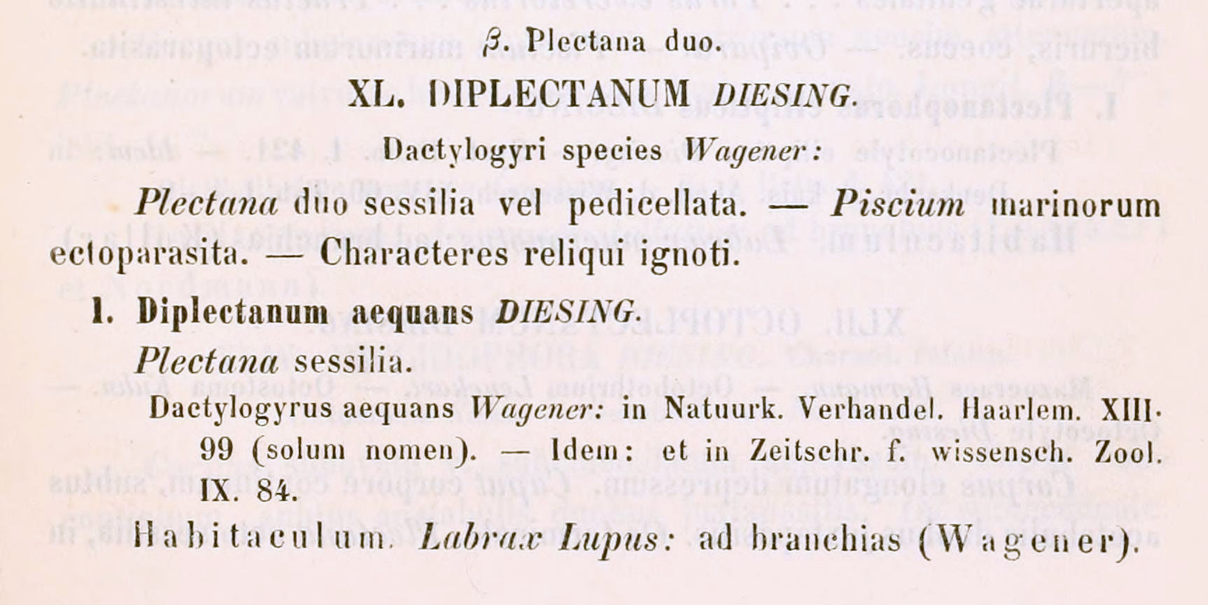 Extract of Diesing (1858) Revision der Myzhelminthen - part of page about Diplectanum and Diplectanum aequans